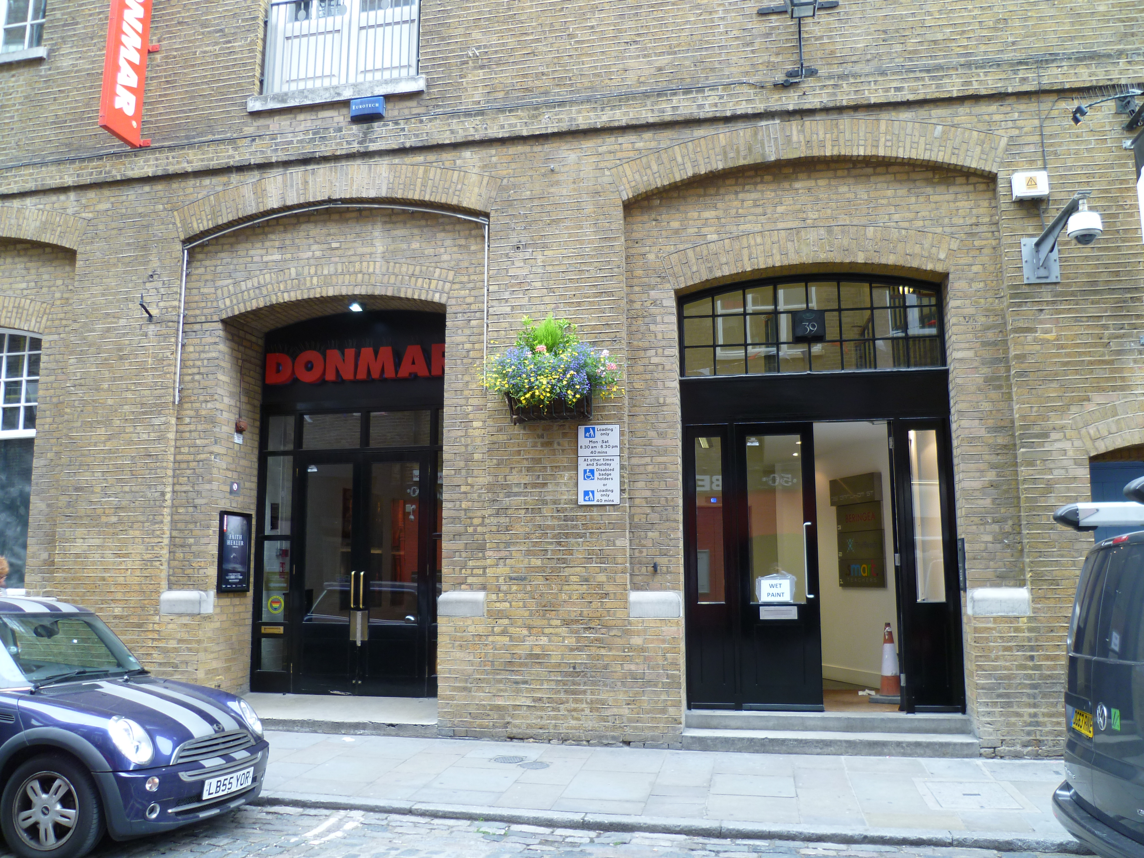 Donmar Warehouse, Earlham Street, London, UK.